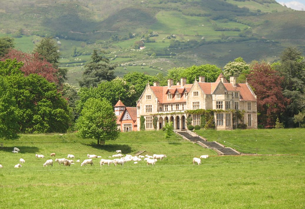 Hornillos Palace is located in the hamlet of Las Fraguas, Arenas de Iguña, Cantabria, Spain. The house was built in 1840 and was designed by the Scottish architect Ralph Selden Wornam and is an eclectic style of English neoclassical style and is one of the few examples of Victorian Architecture located in Spain. The house was used for exterior shots in the 2001 film "The Others" starring Nicole Kidman.